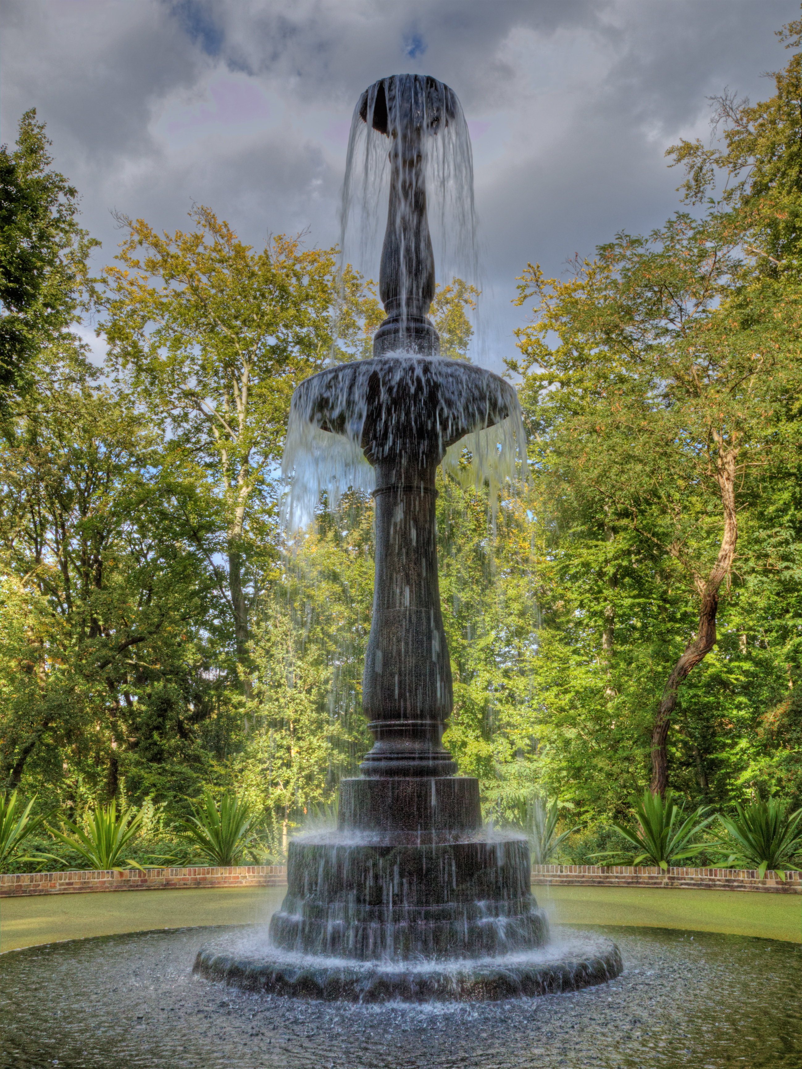 UNESCO World Heritage site „Peacock Island“ in Berlin-Wannsee. The Fountain.